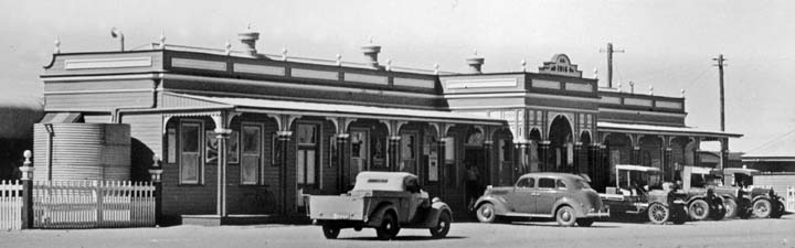 Longreach Railway Station, Capricorn Highway, Longreach. [This is now the Landsborough Highway, route A2]